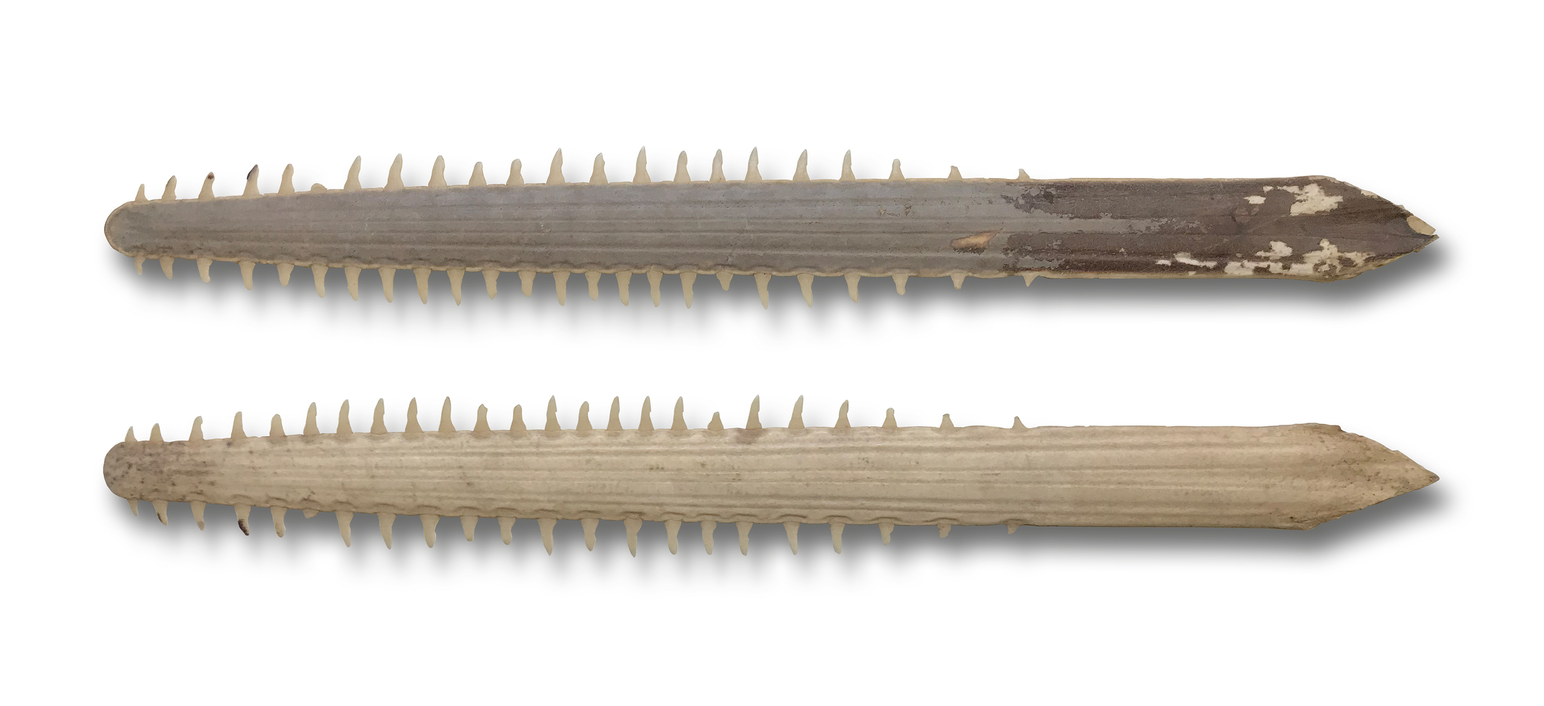 Top and bottom of the rostrum of an Australian sawfish. (Length 13,3 inch).